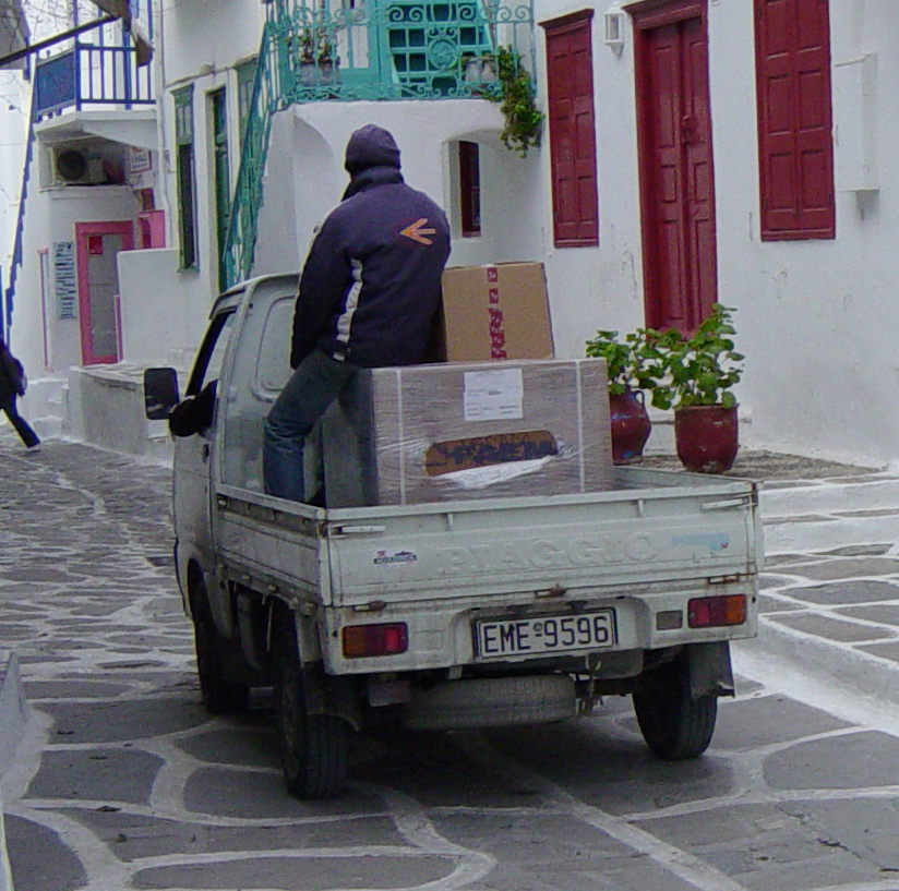 Piaggio truck, seen on Mikinos, Greece. These trucks are based on the seventh generation Daihatsu Hijet ( ja : ダイハツ・ハイゼット ). Curbs prevent entry of any vehicle with a wider track.